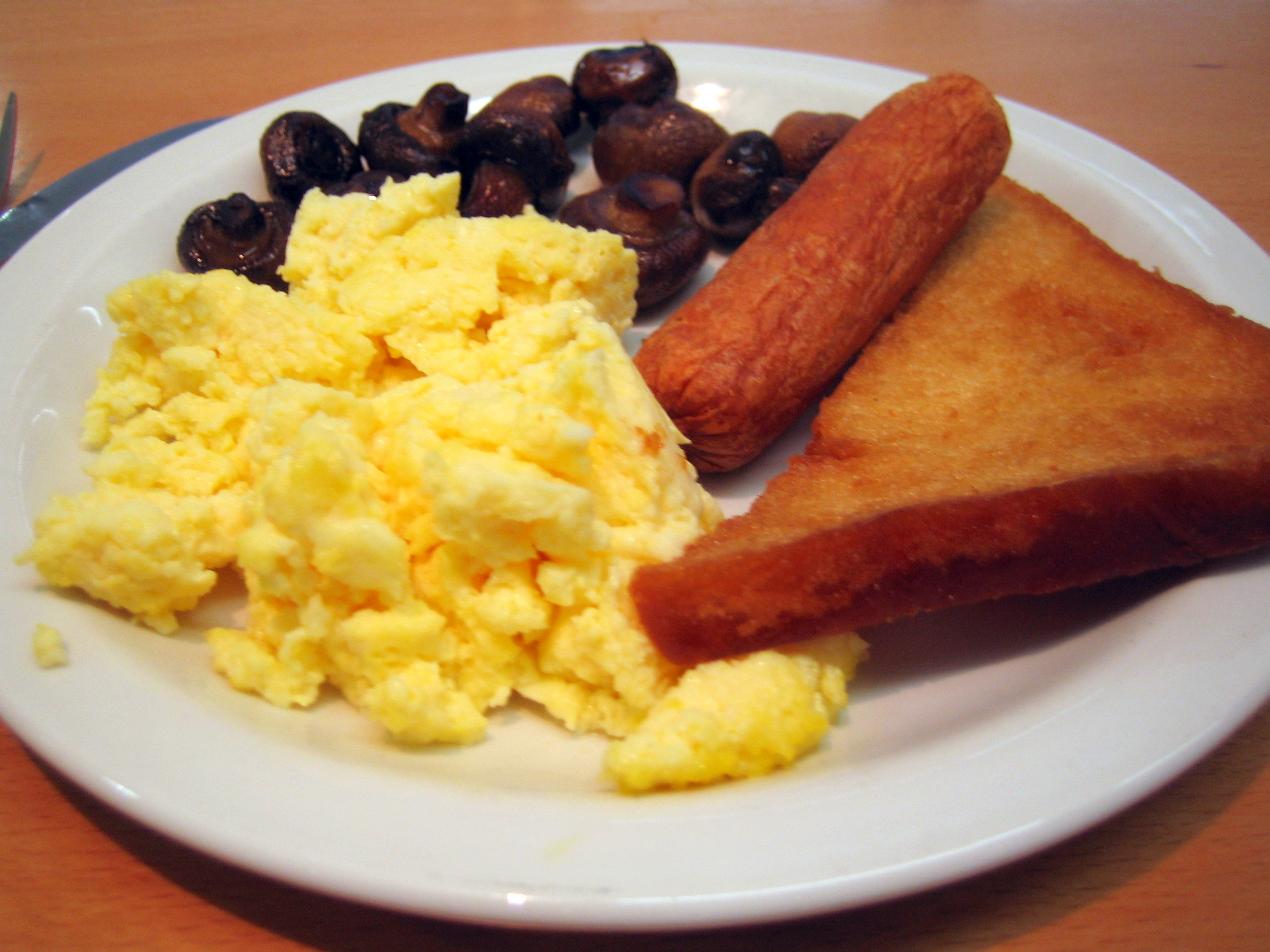 Scrambled eggs, veggie sausage, mushrooms and fried bread.